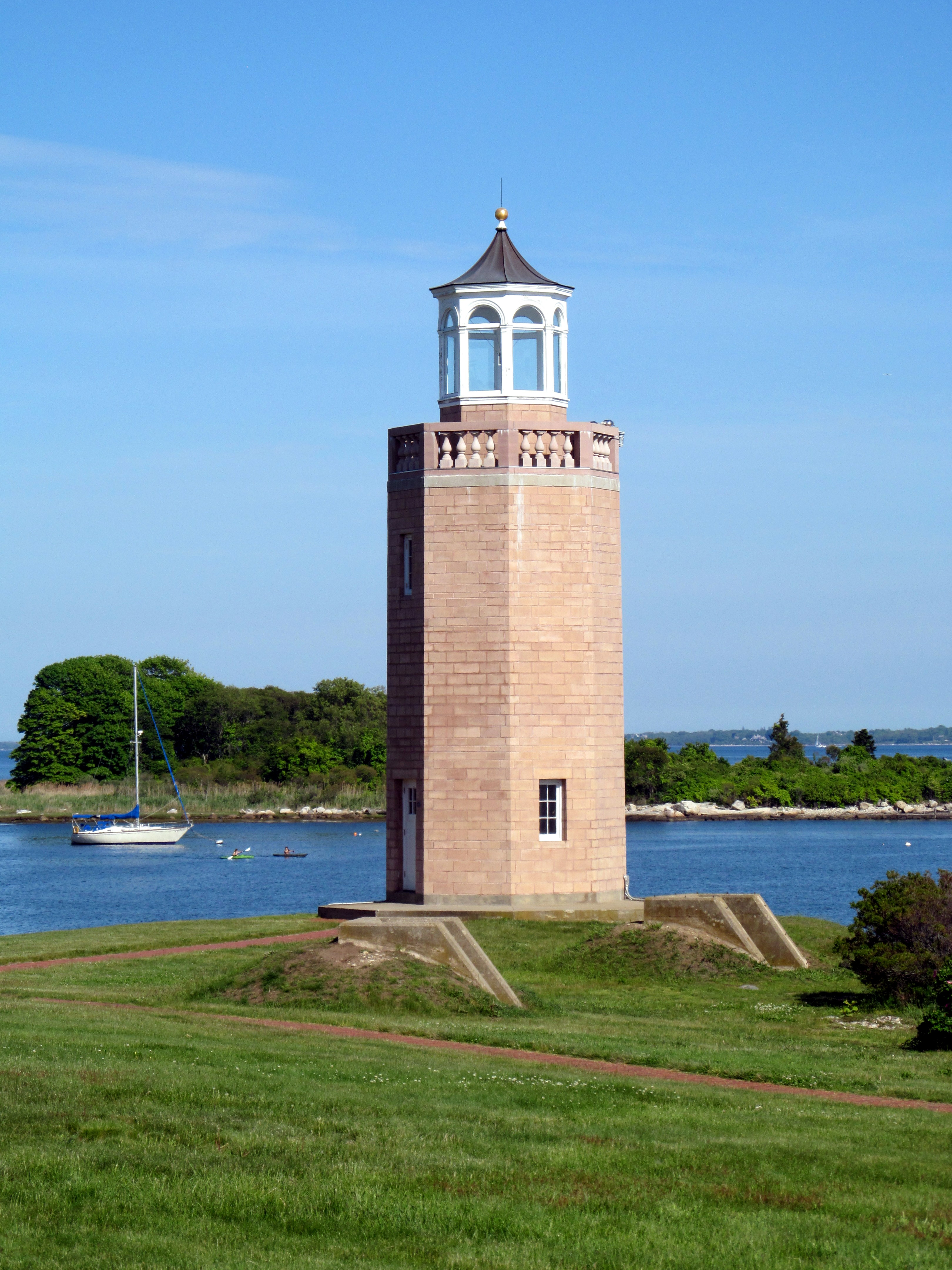 Avery Point Lighthouse in June 2014, several years after renovations